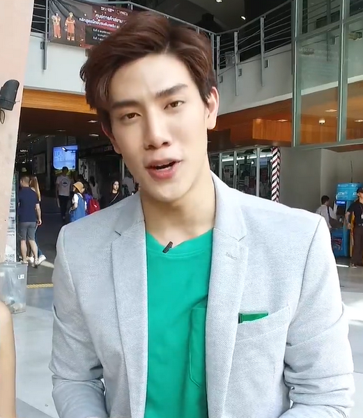 Sapol Assawamunkong, Thai actor.